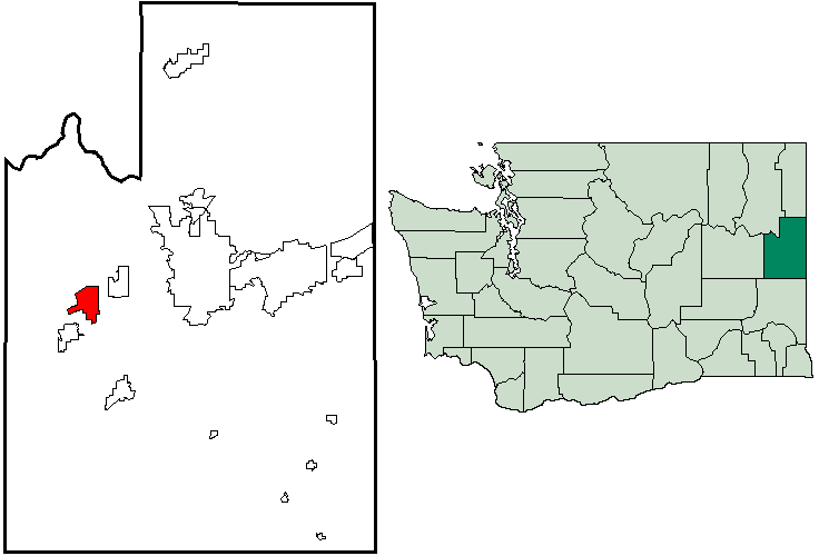 Map of Fairchild AFB within Spokane County, with county highlighted on Washington map. Created by Locke Cole from United States Census Bureau maps (with inspiraton from Tradnor) . Commons:Category:Spokane County